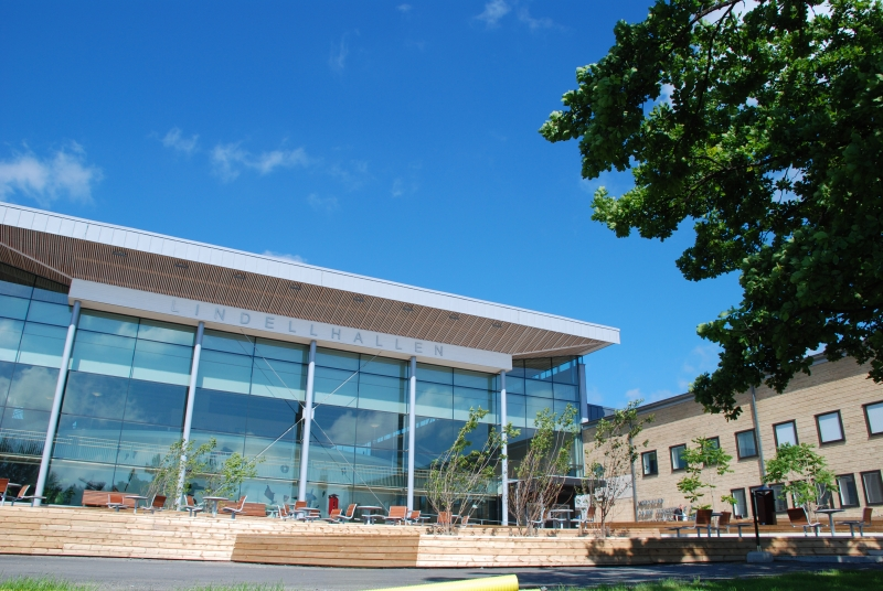 Lindellhallen at the Umea University campus, building for the USBE Business School.